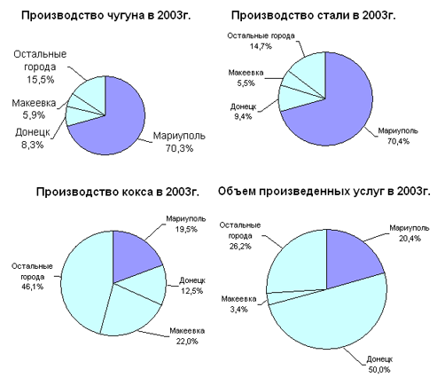 Table of Mariupol Production